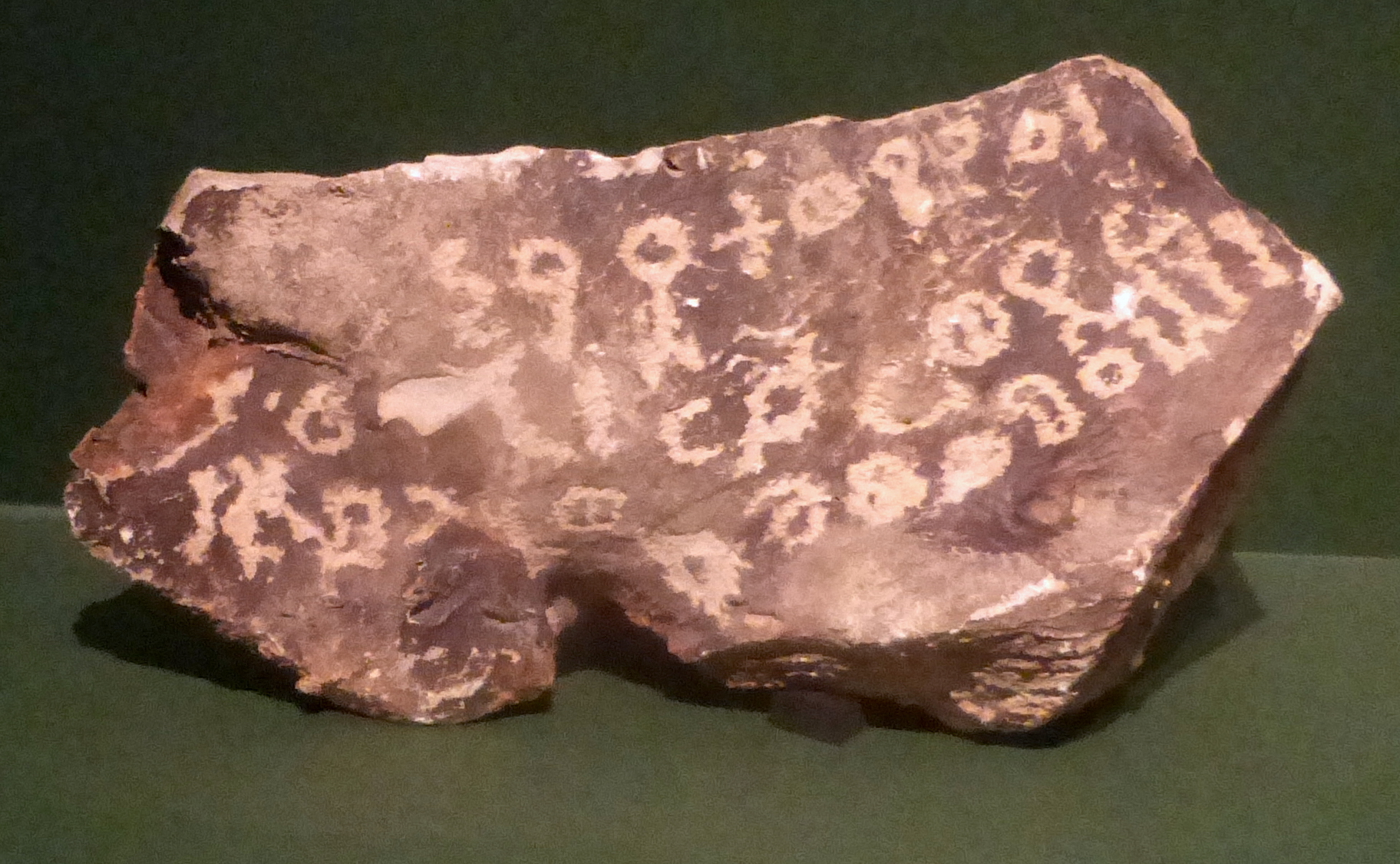 Being that this is Thamudic from Qaryat al-Faw I guess it is Thamudic F.